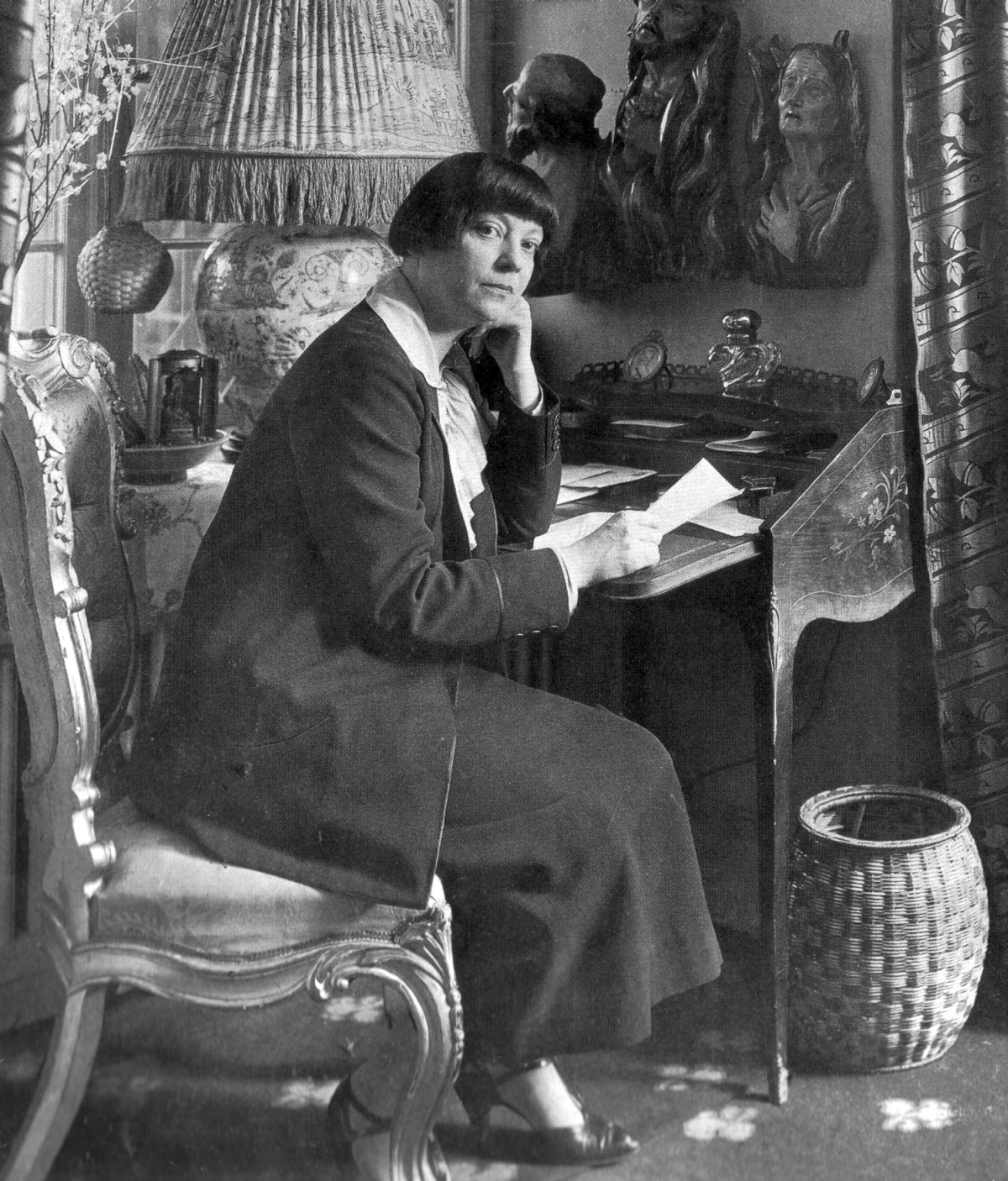 Danish actress Asta Nielsen in her Berlin apartment in 1925, partial view of original photo.